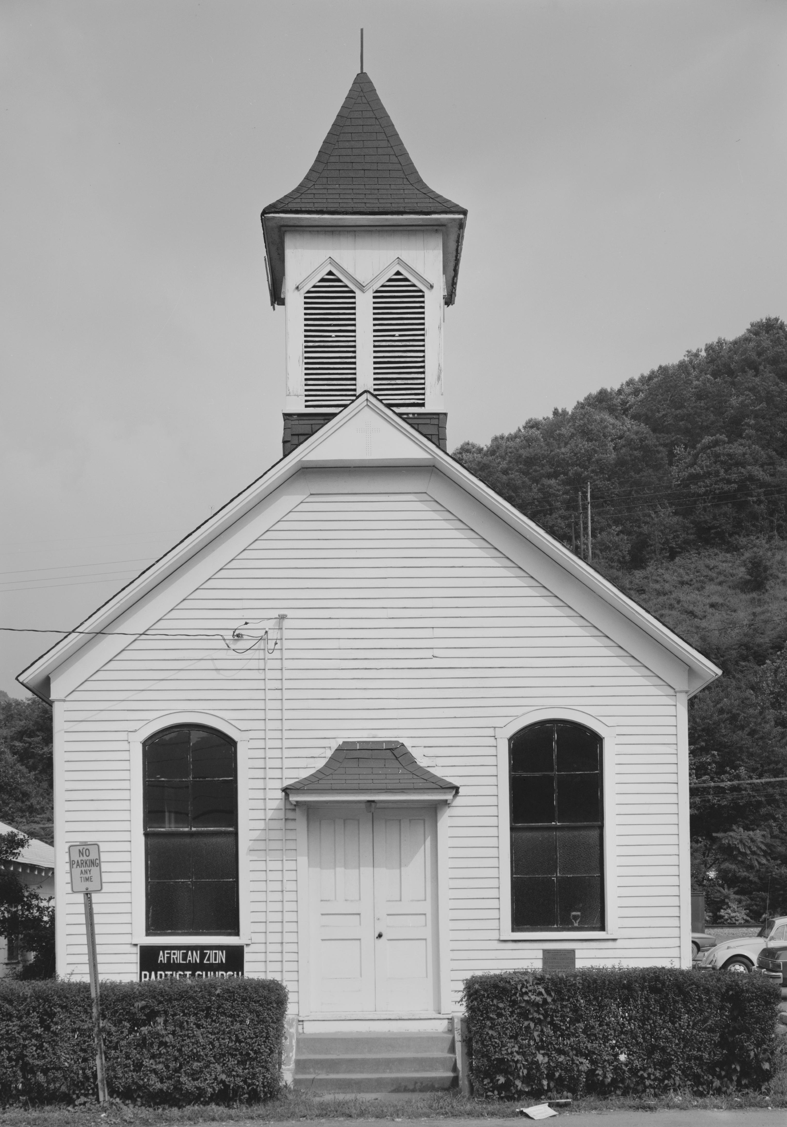 Front of the African Zion Baptist Church, located at 4305 Salines Drive in Malden, West Virginia, United States. Built in 1872, it is listed on the National Register of Historic Places, and is part of the Register-listed Malden Historic District.